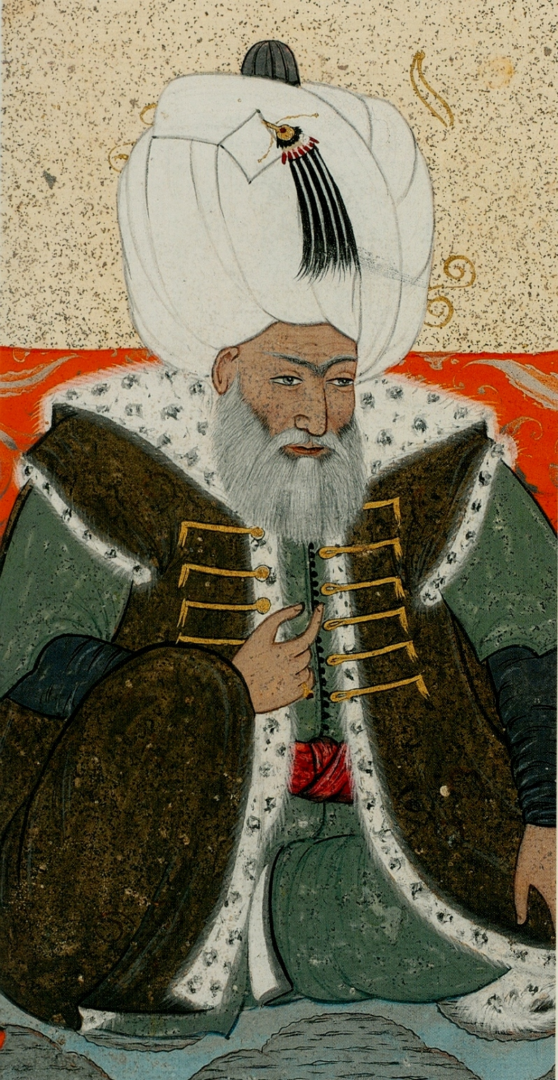 Levni._Portrait_of__Bayezid_II._1703-30_Topkapi_Saray_museum